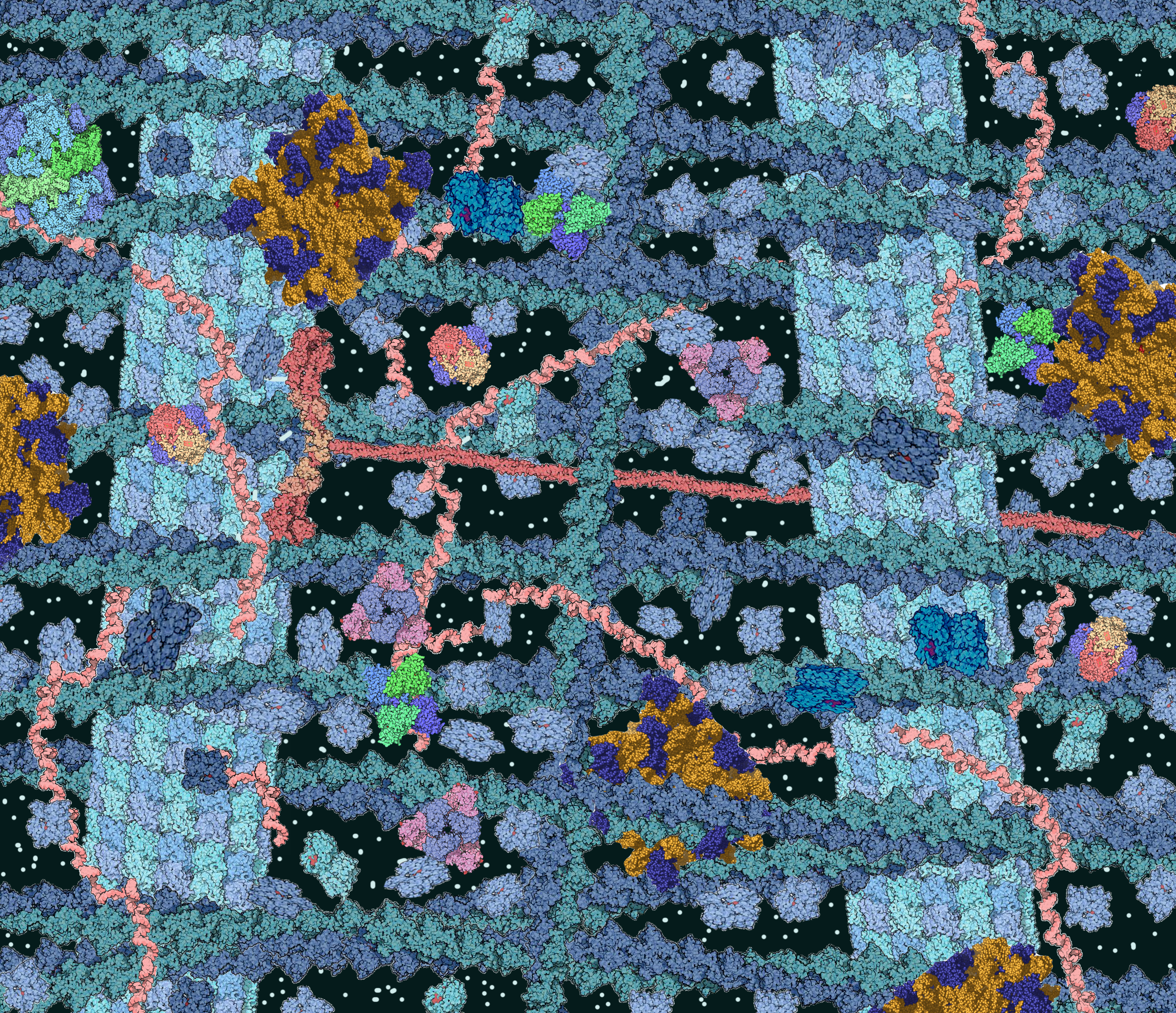 Picture of cytosol, showing microtubules (light blue), actin filaments (dark blue), ribosomes (yellow and purple), soluble proteins (light blue), kinesin (red), small molecules (white) and RNA (pink).